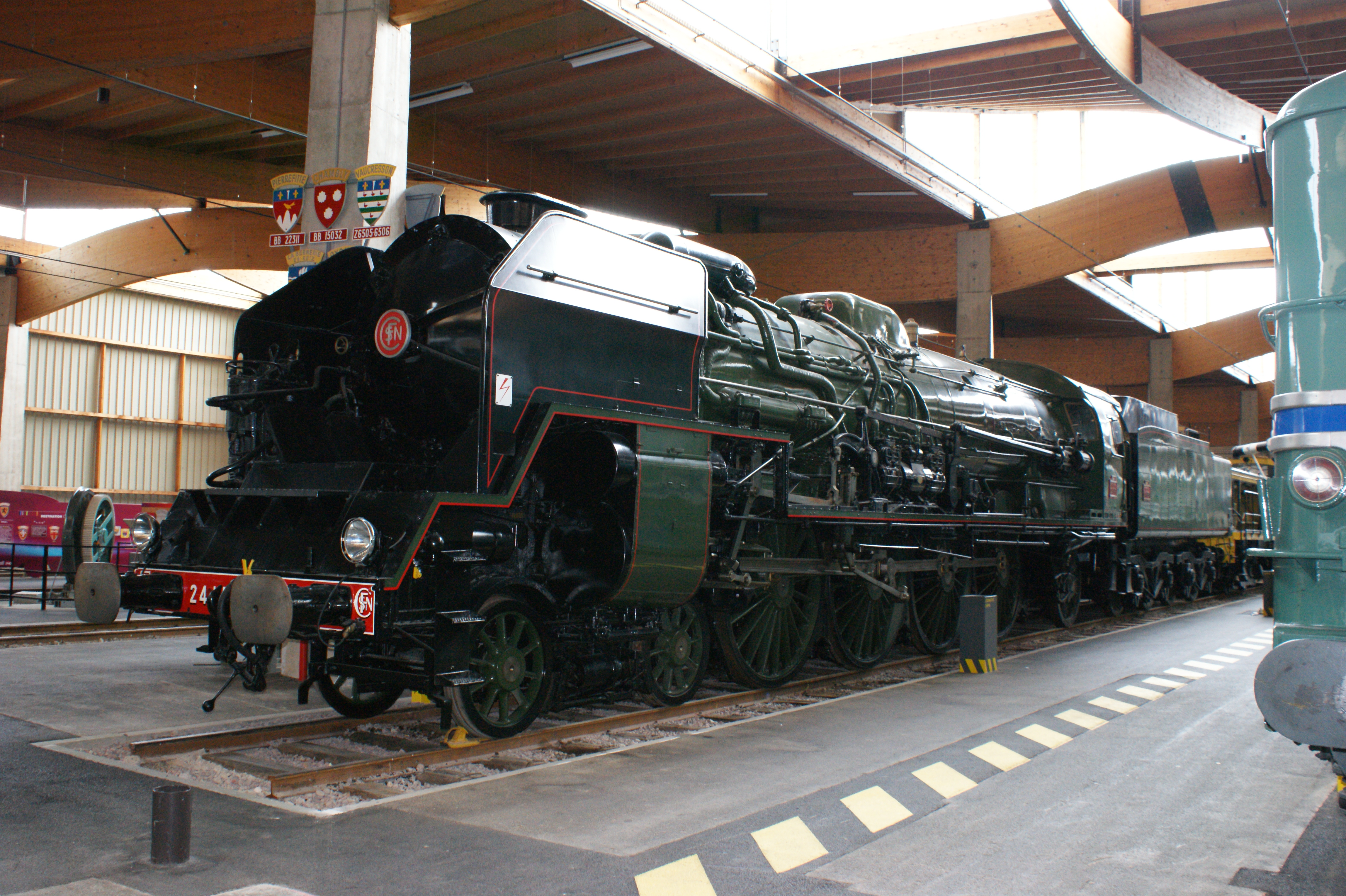 SNCF Standard "241P" 4-8-2 No.241P.16 (Schneider 1948). An update of the PLM "241C" Class, which was a curious choice for express passenger service when the SNCF already had the superb "240P" 4-8-0 standards (the most efficient steam loco class ever built) based on the Chapelon PO "240As" explicable only by the predominence of ex-PLM Senior Officers in the SNCF who heartily disliked the PO. The excuse was that the "240As" had weak frames (which they did), but so had the "241Cs" and the "240Ps" had much stronger frames. So the "240Ps" were prematurely scrapped and the "241Ps" were built which still had frames that were not particularly strong and required regular patching! Nonetheless, still a very powerful, efficient and competant design. 3/10.